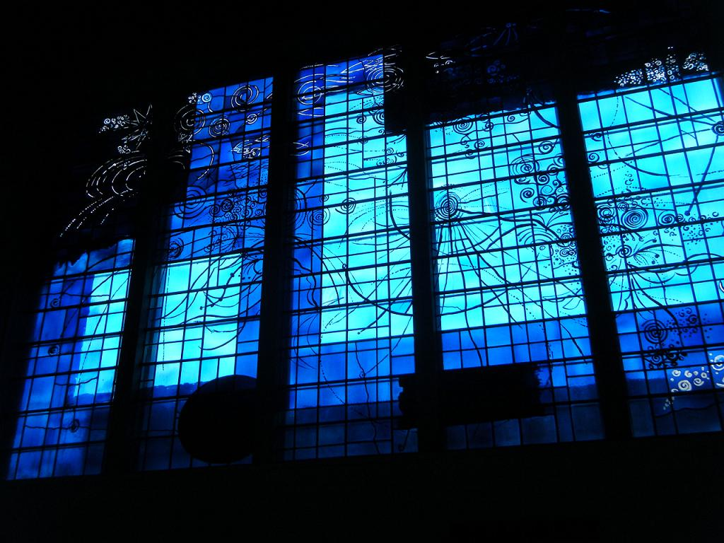 Stained glass by John Piper – St Andrew's Church, Wolverhampton, West Midlands. The window represents the Sea of Galilee.